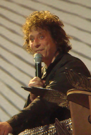 Welsh drummer Stuart Cable